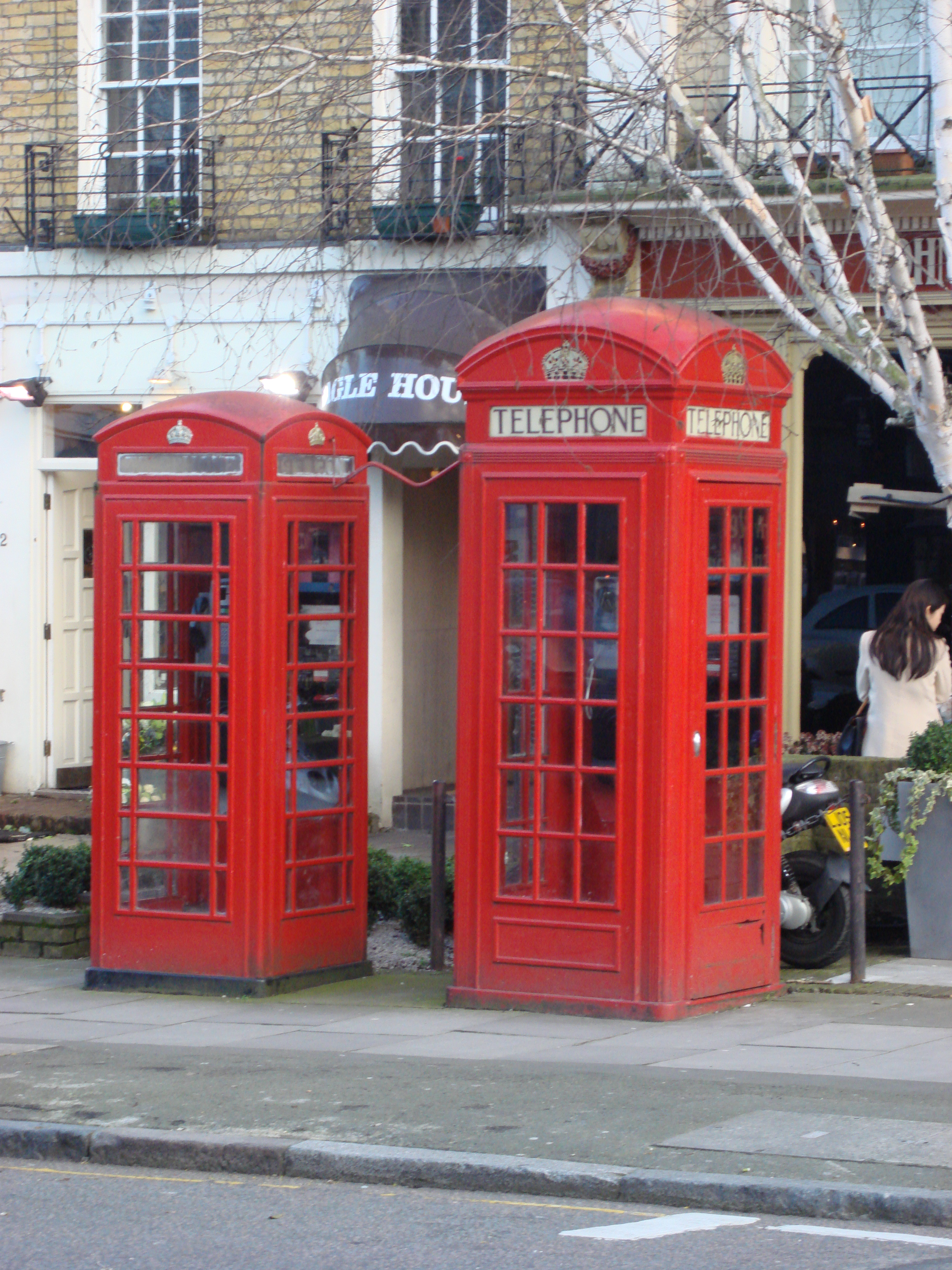 A K2 (big) phone box stands next to a smaller K6 kiosk, on St John's Wood Terrace, near to St John's Wood High Street, London, UK.